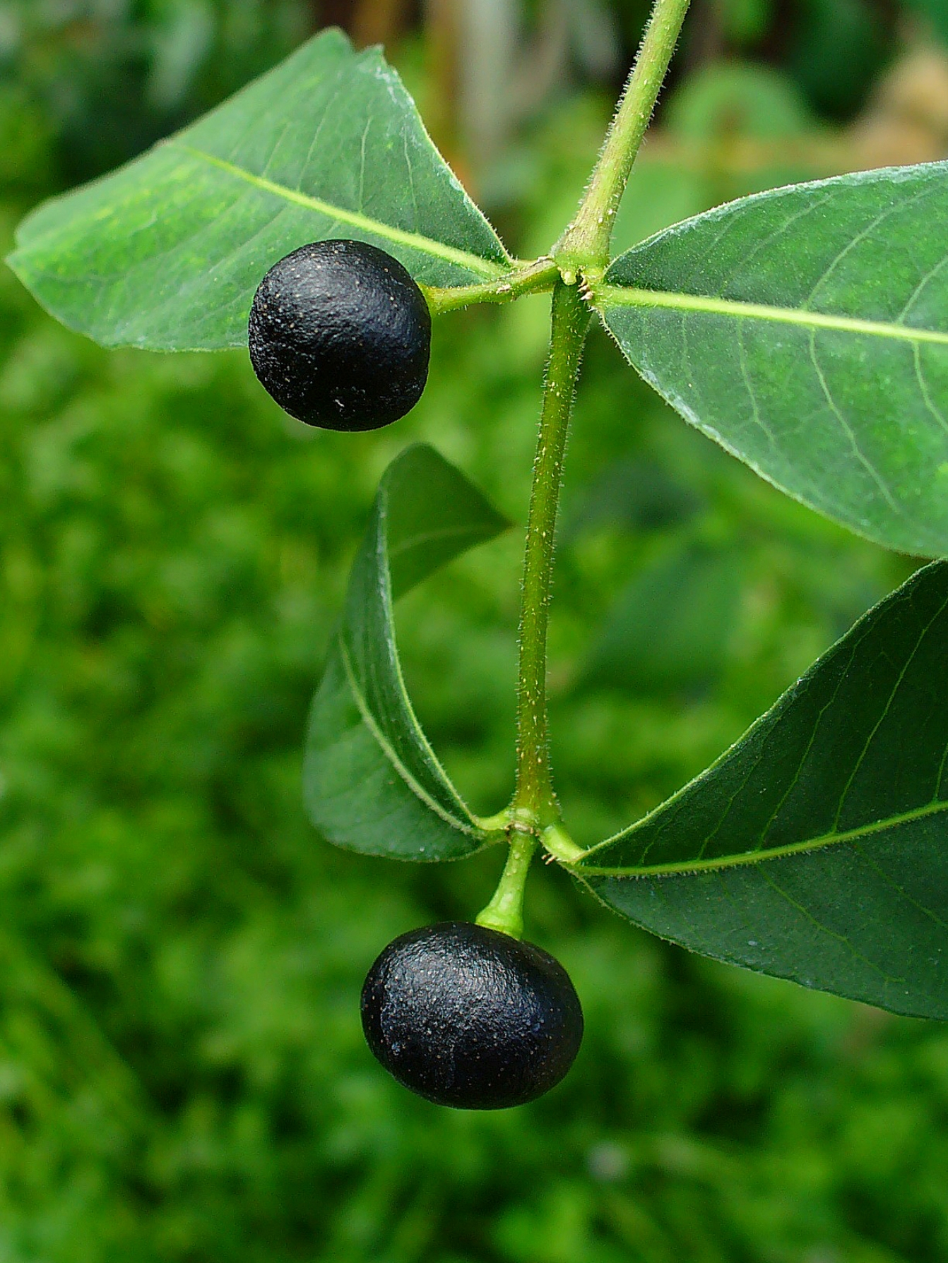 Rauvolfia serpentina, Apocyanaceae, Snakeroot, fruits. Botanical Garden KIT, Karlsruhe, Germany.